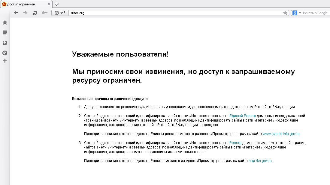 Torrent-tracker blocked in Russia. 09.03.2014 (Rostelekom's message)